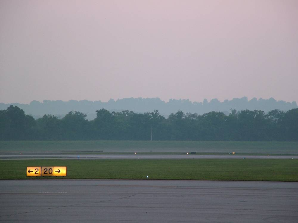 Picture took by William Harris on June 22, 2005 at 20:02EDT